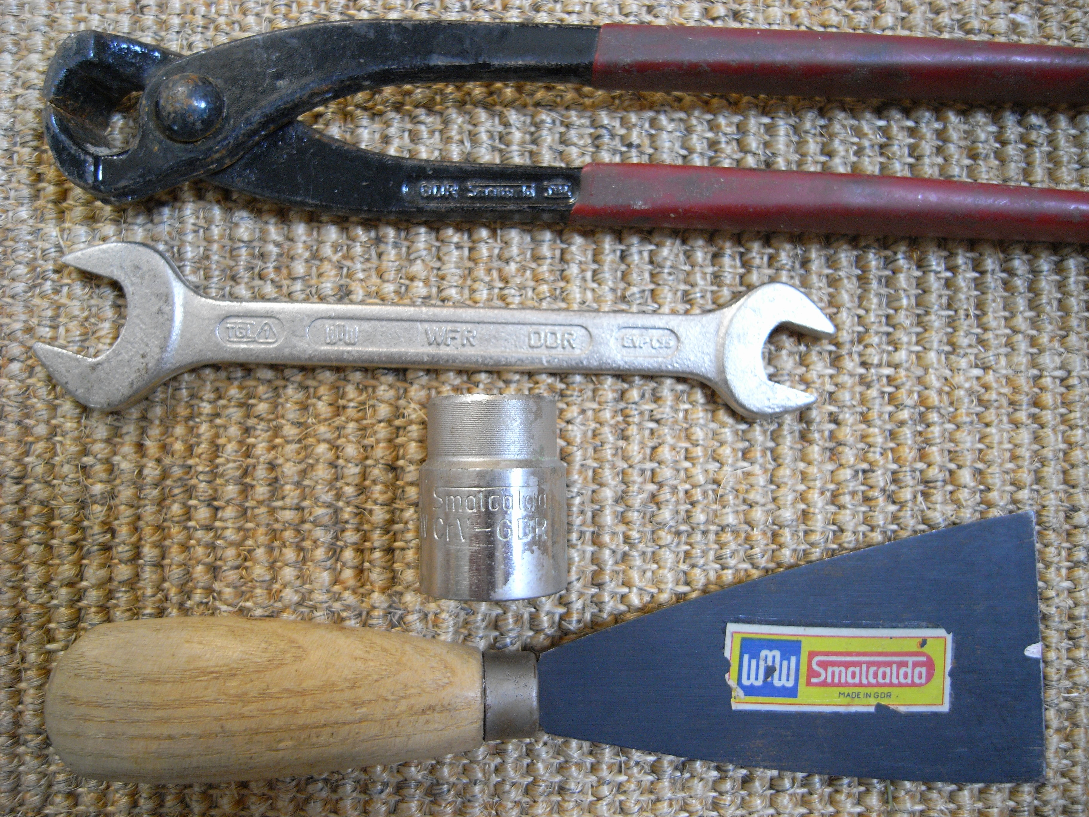 Tools made by the former Tool Combine Schmalkalden/Germany with trade mark "Smalcalda"